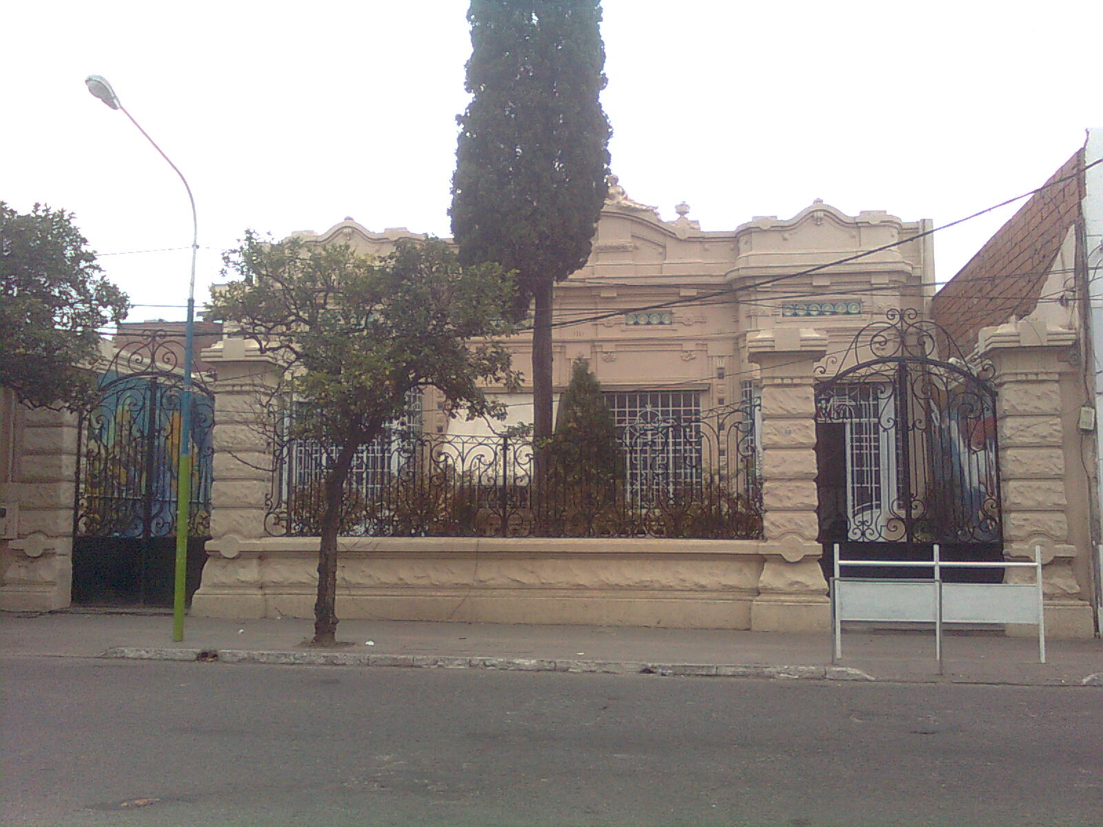 Fachada de la Escuela de Bellas Artes UNT